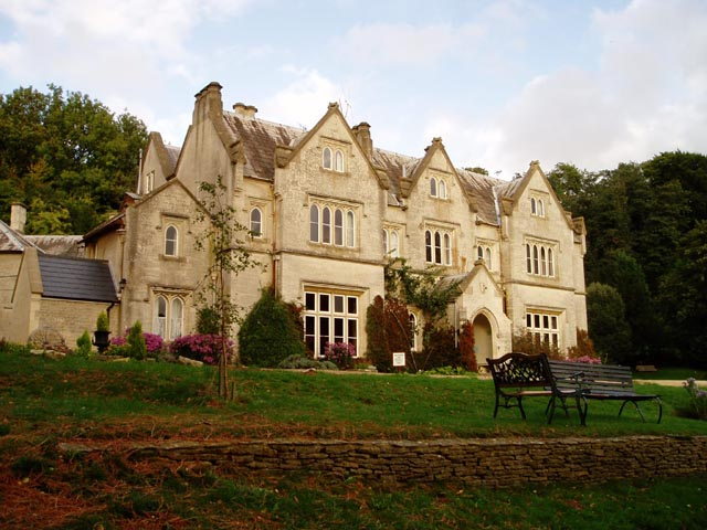 Hawkwood An adult education college set in a former country house just outside Stroud . Marked as 'The Grove' on the 1940s map.